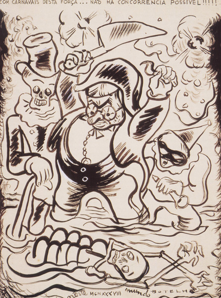 Carlos Botelho, Com Carnavais como este... / With Carnivals such as This One..., 1938 February 17, indian ink on paper, 45,3 x 34 cm